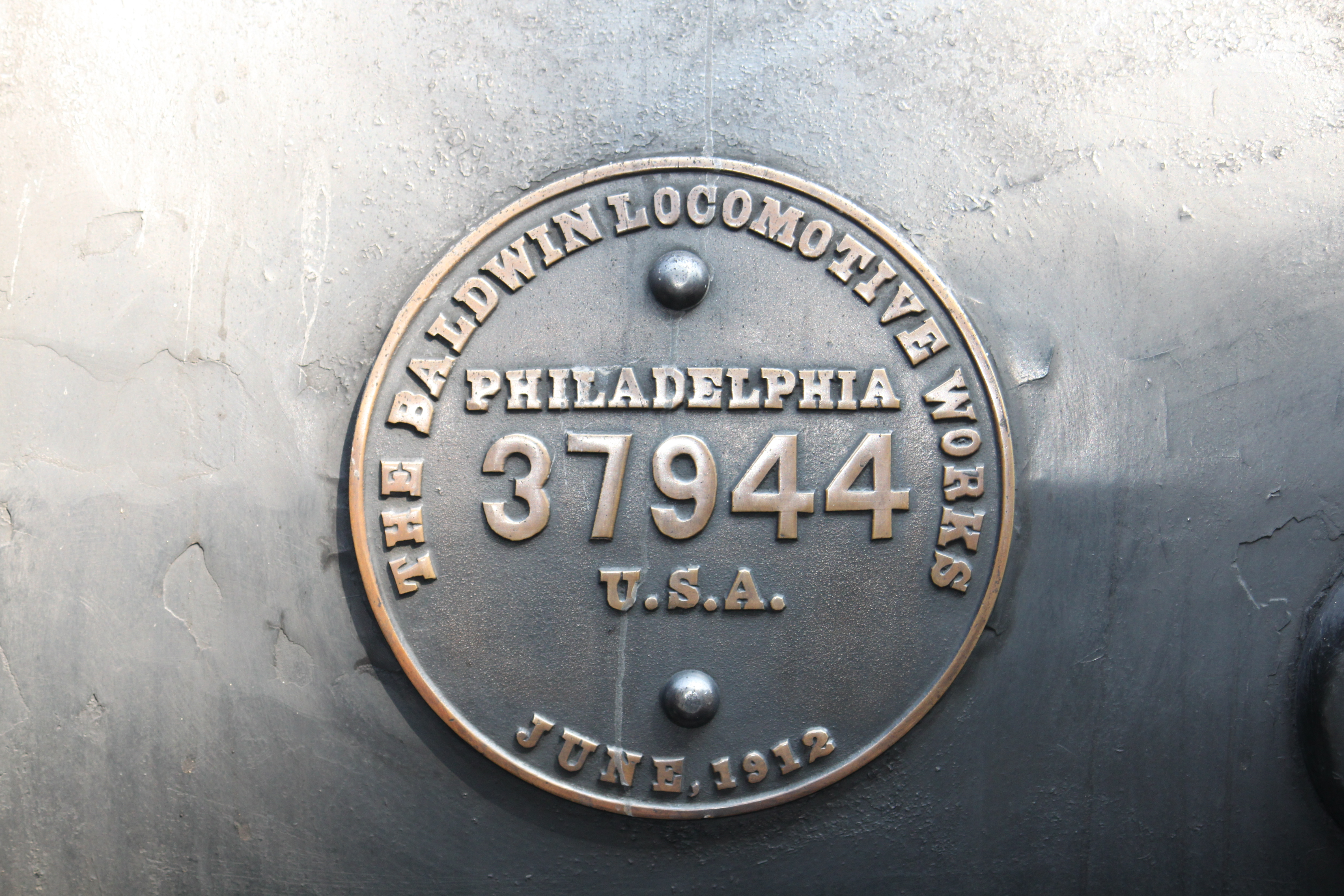 Builder's plate of Meijimura No.9 (Baldwin)